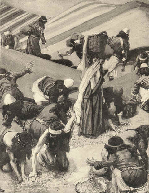 The Gathering of the Manna, by James Tissot